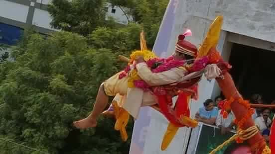 Sirimanothsavam on 27 Oct 2015